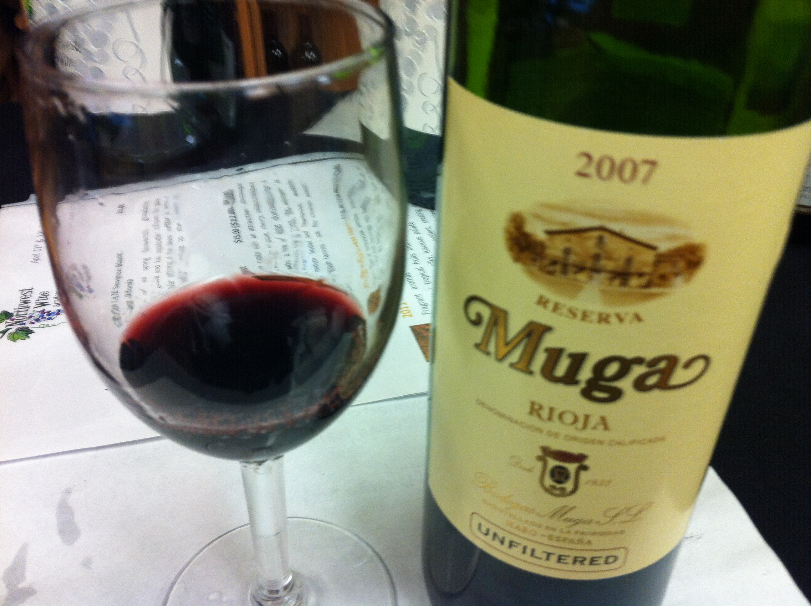 Spanish red wine from Rioja